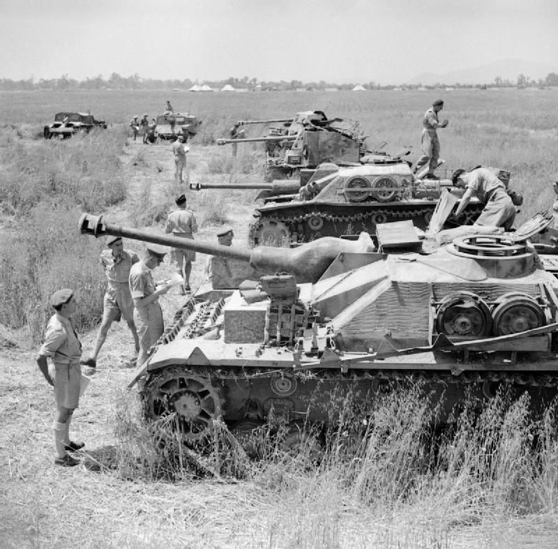 British troops inspect a line-up of captured German and Italian armoured fighting vehicles, Italy, 2 June 1944. A line-up of German and Italian AFVs during a display of captured enemy equipment, 2 June 1944. In the foreground can be seen StuG IV and Stug III assault guns with two Marder tank destroyers behind. In the background two Italian Semovente SP guns can be seen.